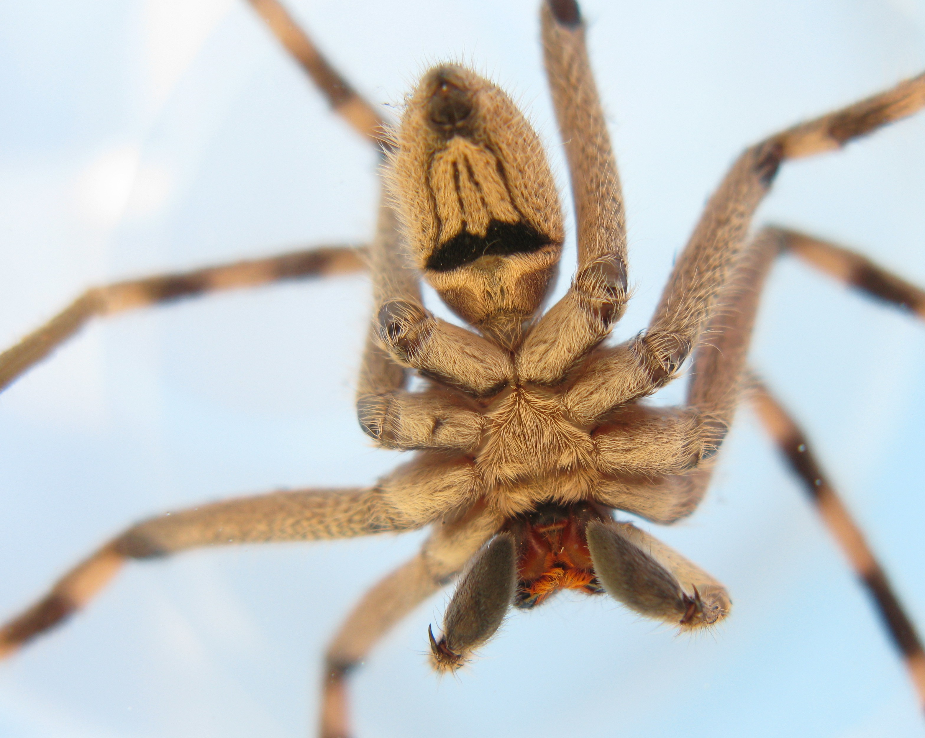 Sparassidae, Palystes superciliosus. Male (as can be seen from gracile build and clavate pedipalps with mating spikes. Ventral Aspect.) Photographed near Somerset West, South Africa. Common names include Rain spider and Lizard-eating spider.